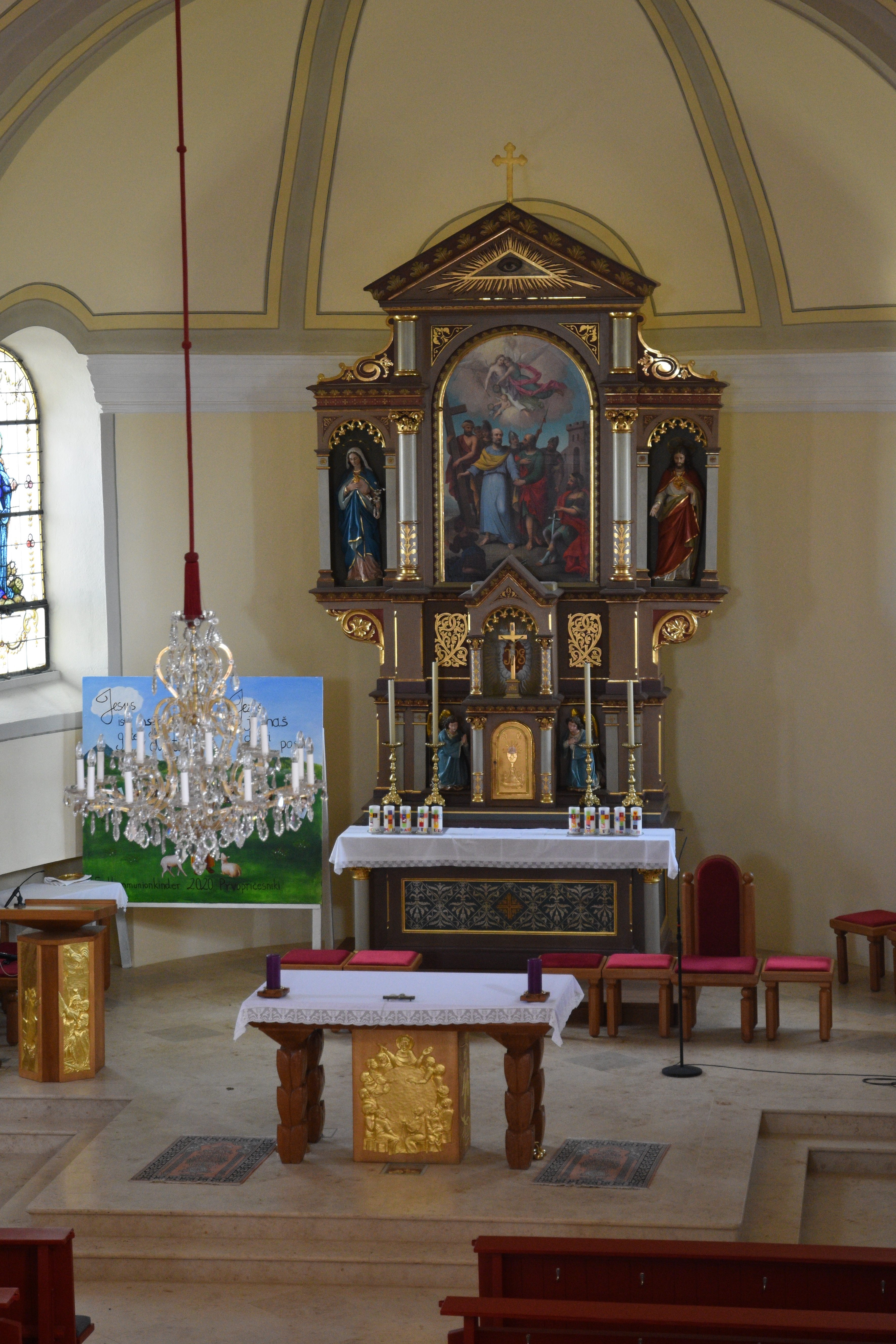 Church Kath. Pfarrkirche hll. Petrus und Paulus (Stinatz) Interior